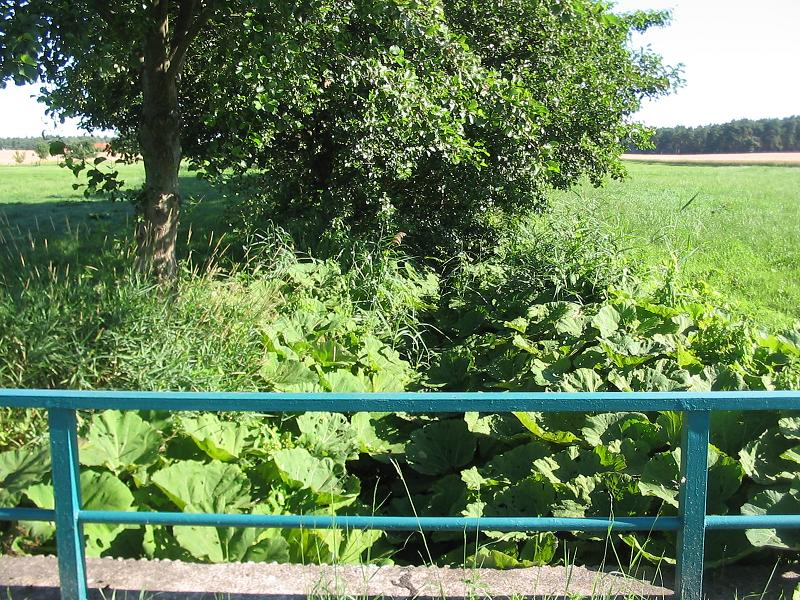 Steam „Streckerbach“ nearby Neschholz. The village Neschholz is an incorporated part of the town Belzig in the district Potsdam-Mittelmark, state Brandenburg, Germany. Belzig appertains to the natural preserve Naturpark Hoher Fläming.